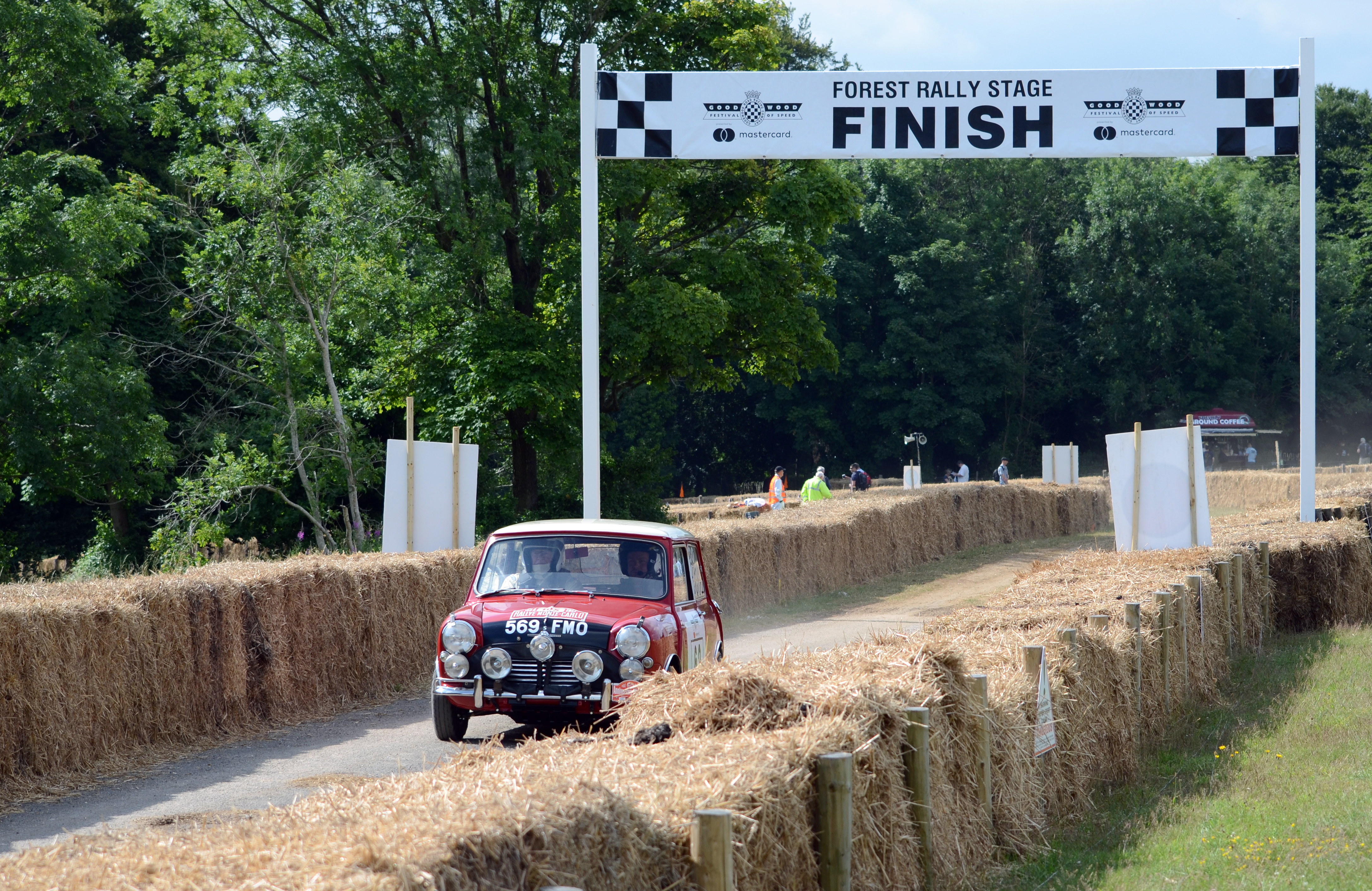 Goodwood Festival of Speed 2017